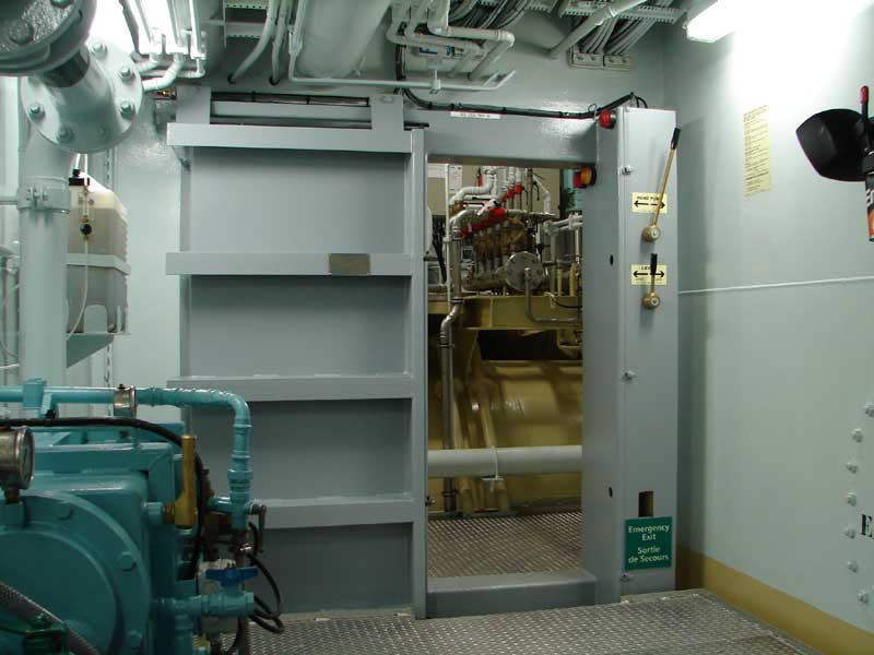 A watertight door closes the aft compartment on the salvage tug Abeille Bourbon